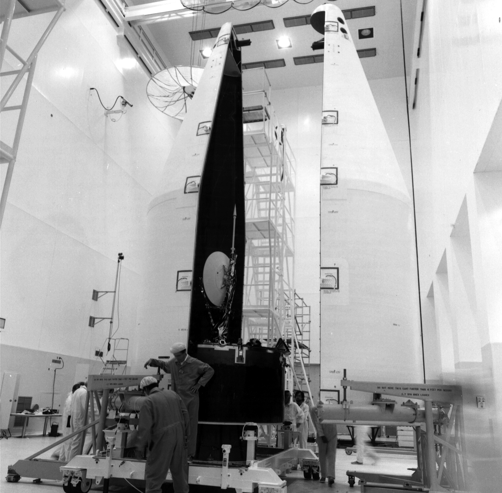 Atlas Centaur fairing installation around the Pioneer Venus 1 spacecraft.